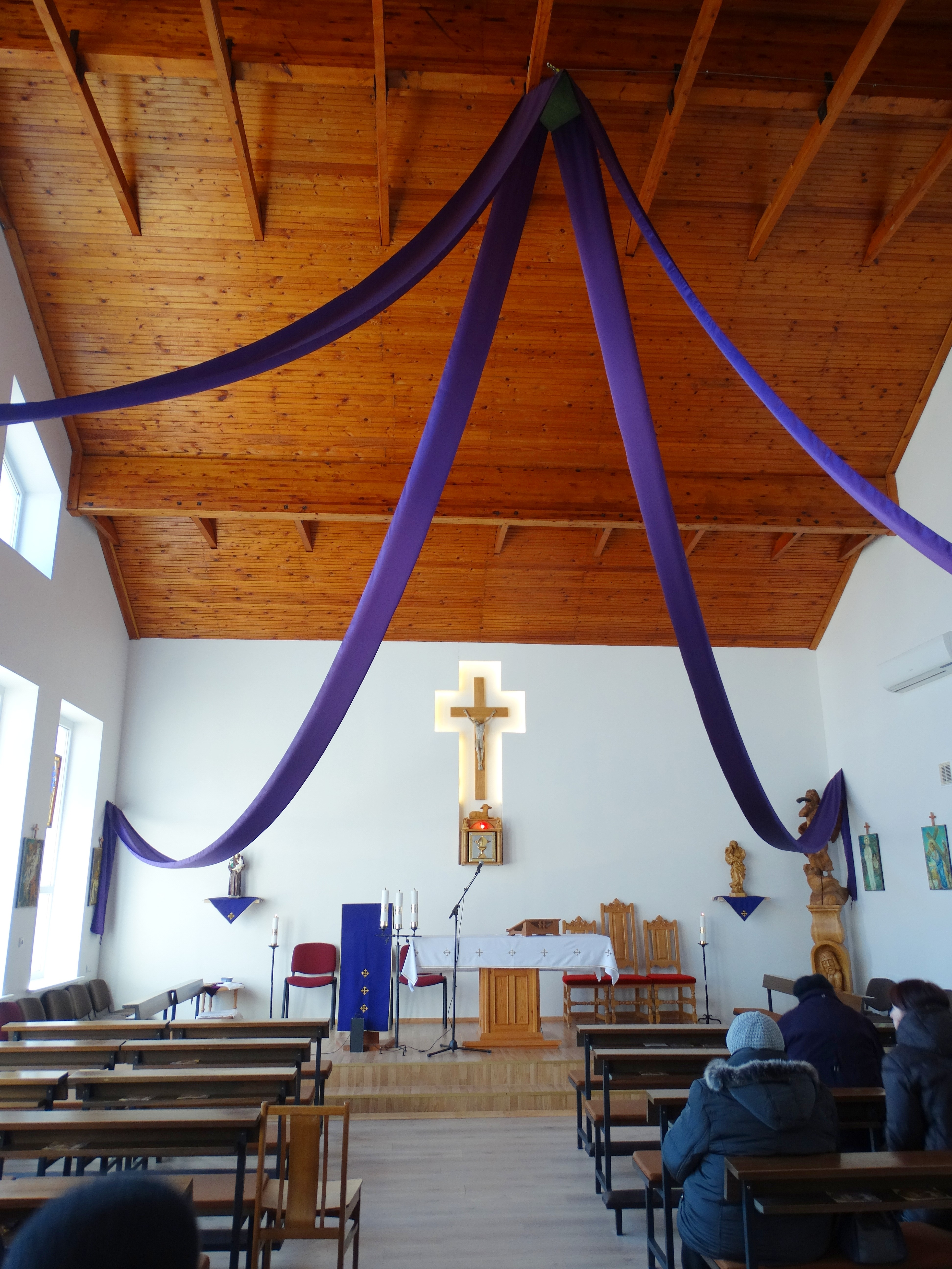 Chapel in Ryškėnai, Telšiai district, Lithuania